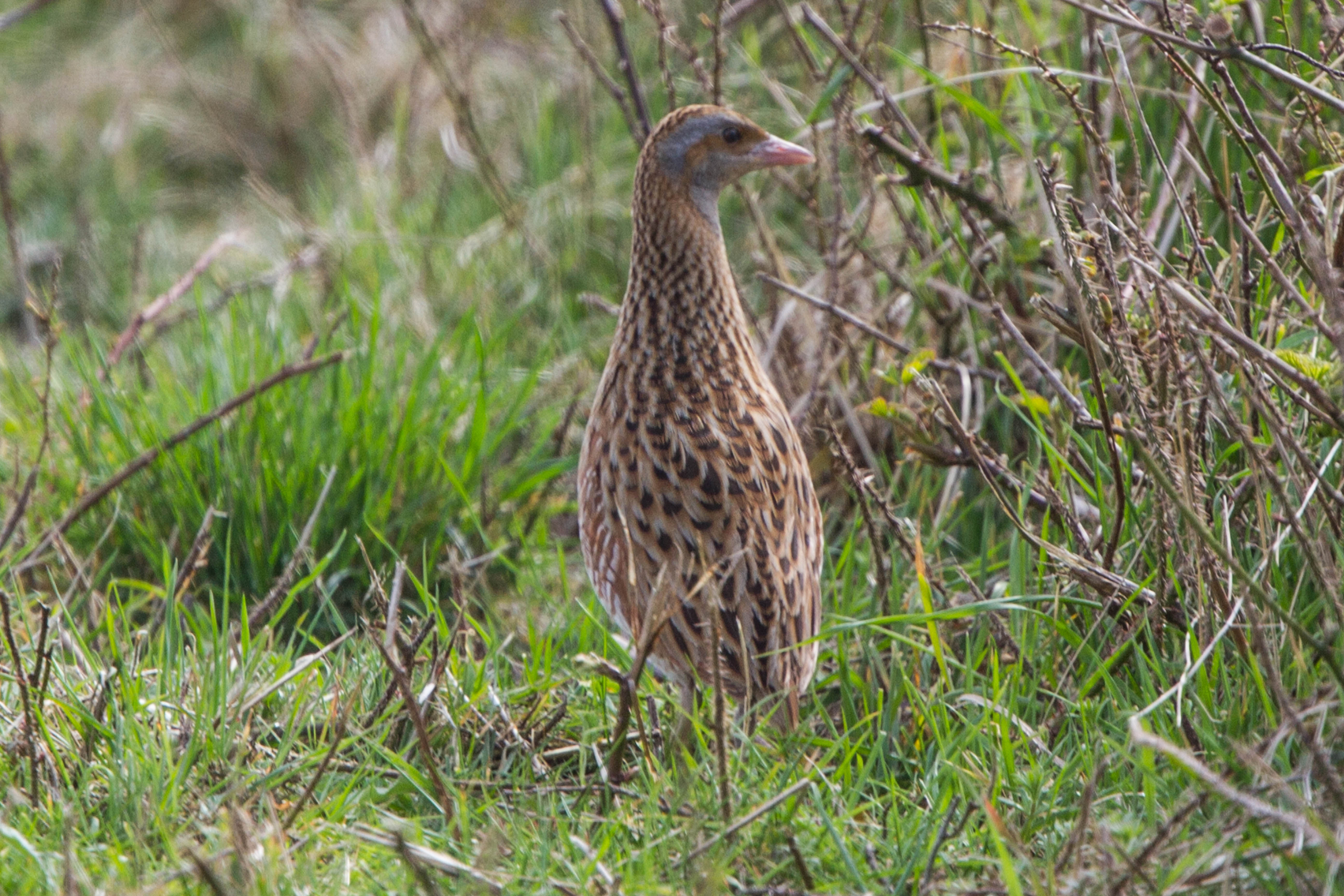 A Corn Crake Crex crex, at Chat Vale, Beachy Head, Sussex